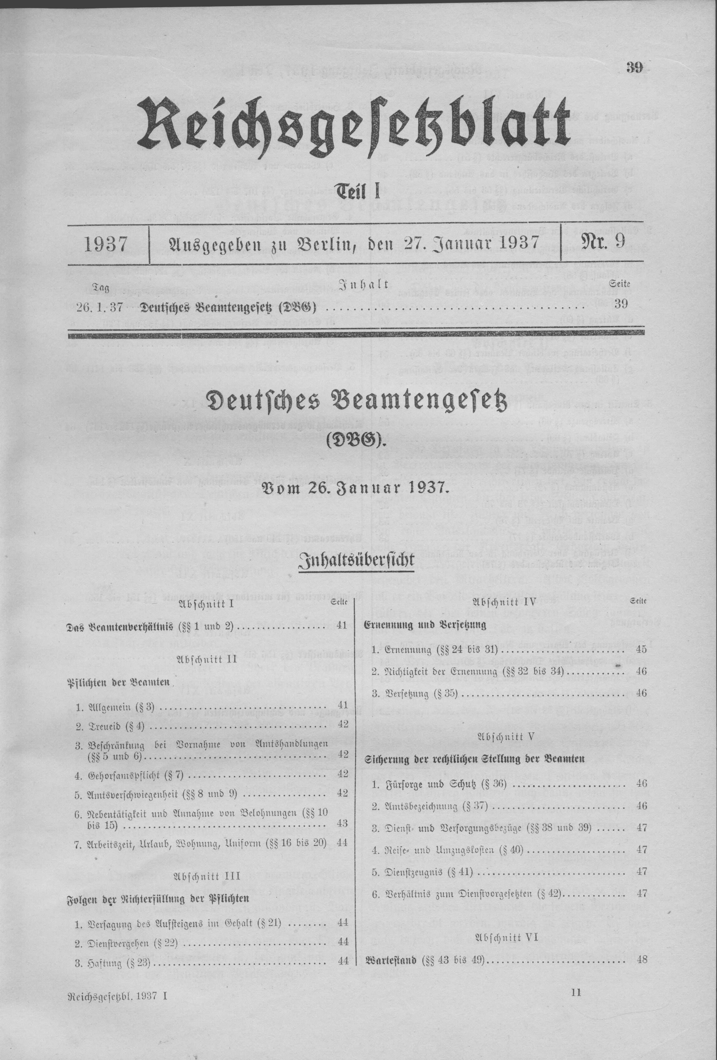 Scan from the Imperial Law Gazette of Germany, 1937, part 1